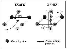 diagram of a single and a multiple-scattering process